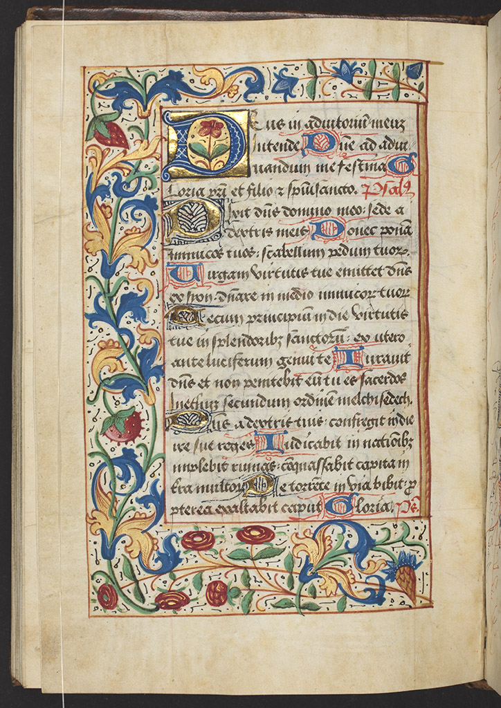 Three-quarter borders introduce each of the Hours of the Virgin from Prime to Vespers. This page introduces Vespers. The borders are of conventional early sixteenth-century floral acanthus design. The initials are graded in importance, from the opening three-line ‘D’ in blue with white tracery on a ground of gold leaf to mark the beginning of Vespers; the two-line ‘D’ for the beginning of Psalm 109 Dixit Dominus Domino meo; to the one line initials for each verse of Psalm 109 alternately in gold leaf with black penwork, and blue initials with red penwork. The Book of Hours was a medieval prayer book used by laymen for private devotion. These books were created for both men and women, but their place in female devotion is particularly noteworthy. The text centres on the Hours of the Virgin, a series of prayers to be said at the eight canonical hours of Matins, Lauds, Prime, Terce, Sext, None, Vespers, and Compline.